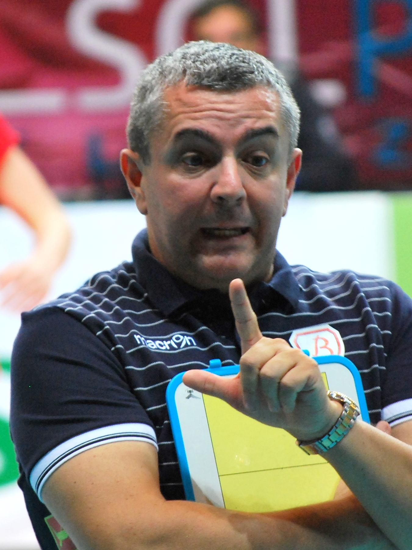 Mauro Masacci, volleyball coach from Italy